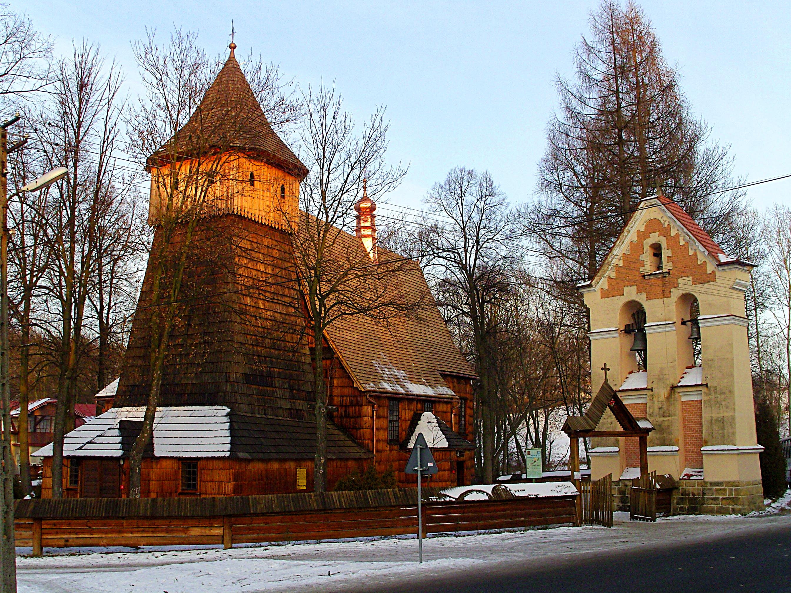 St. Michael Archangel Church in Binarowa from circa 1500